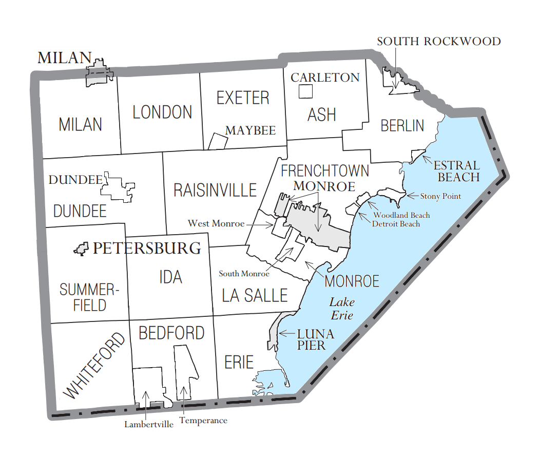 Monroe County, MI census data map